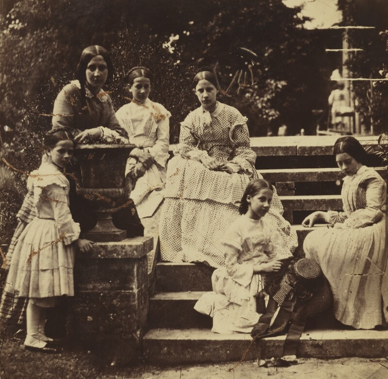 Family photograph of the daughters of Sir John Herschel posed on a flight of steps outdoor. NPG catalogue no: NPG x44697